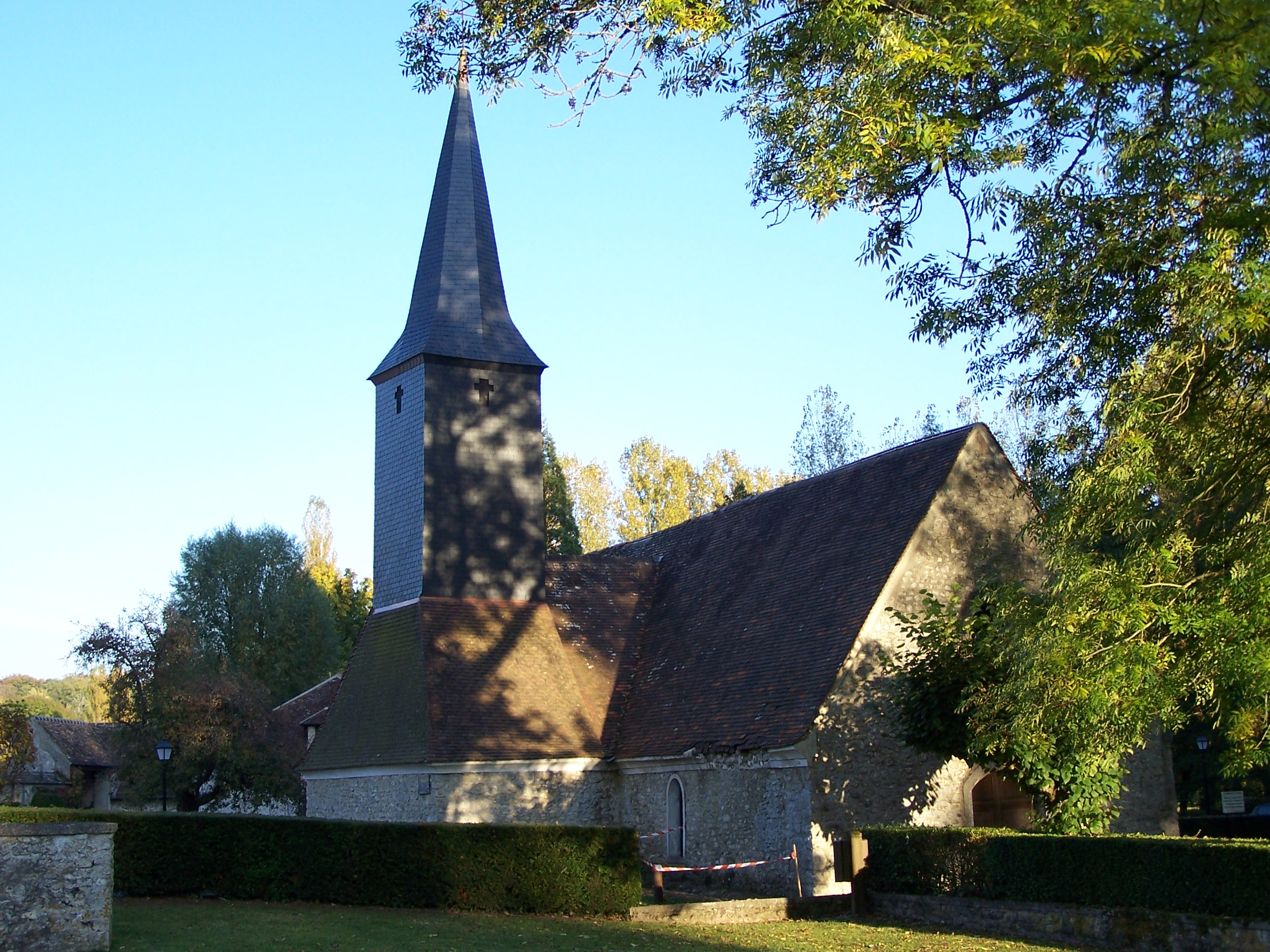 Church Sainte-Clotilde in Courgent (Yvelines, France)